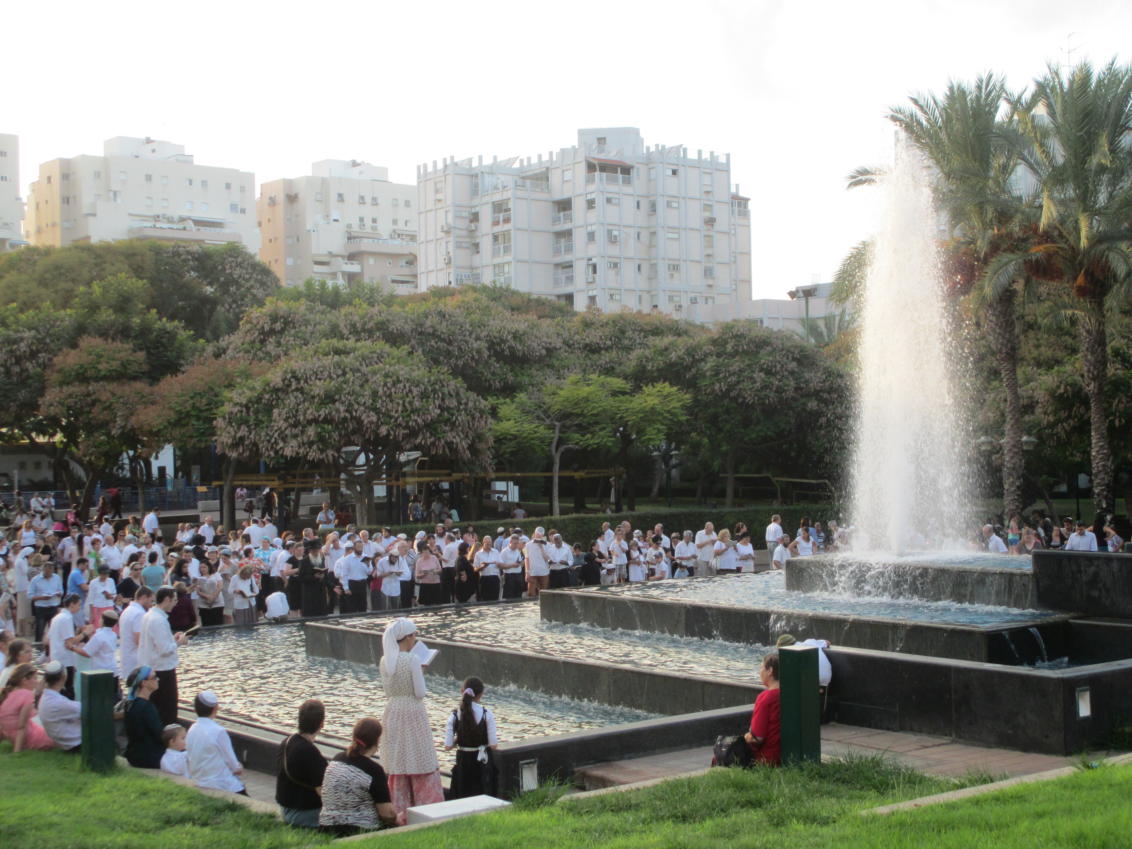 Tashlich ceremony in Marom Nave